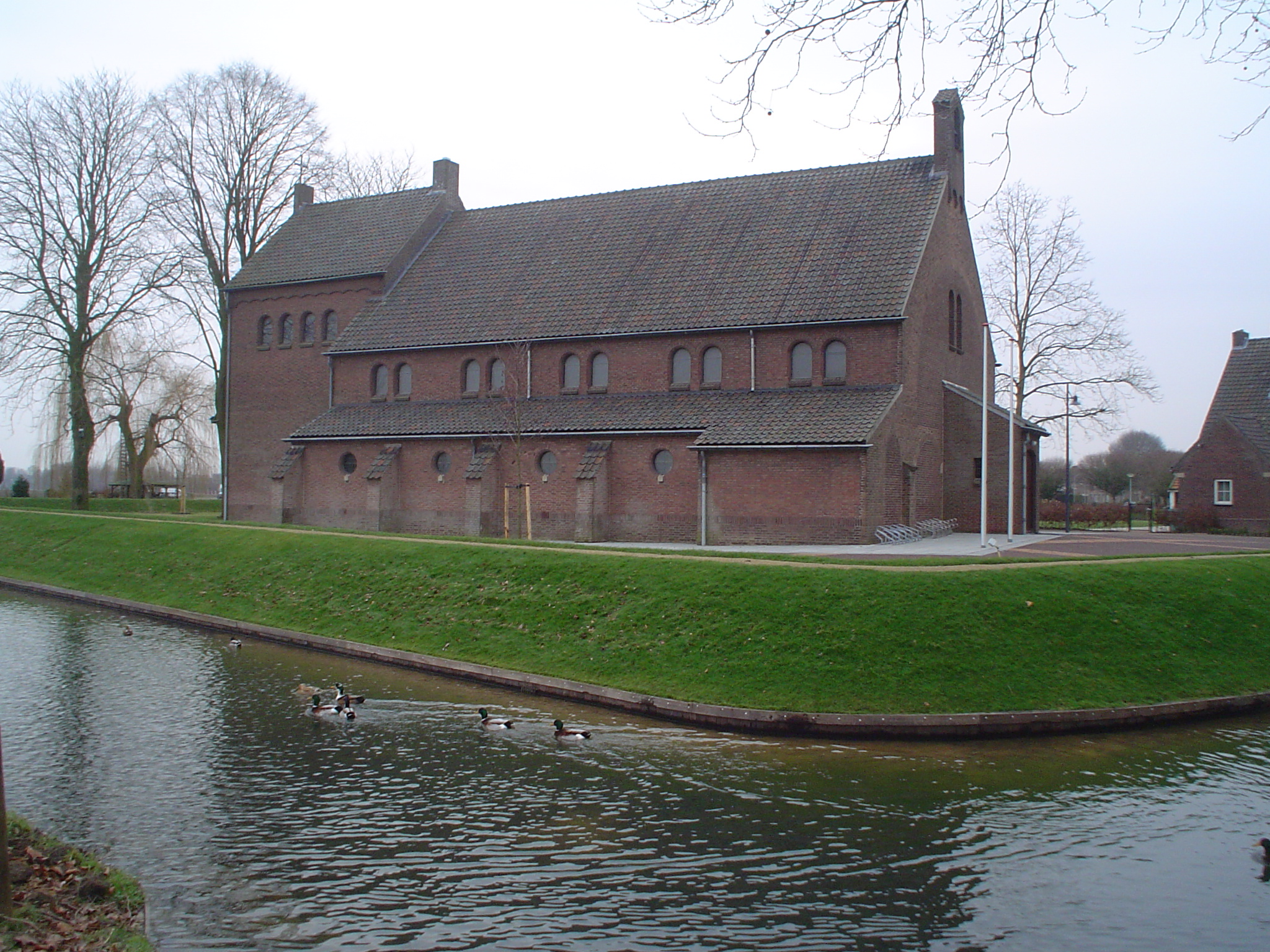 The Saint Hiëronymus and Antoniuschurch in the village Laar, near Weert, the Netherlands.